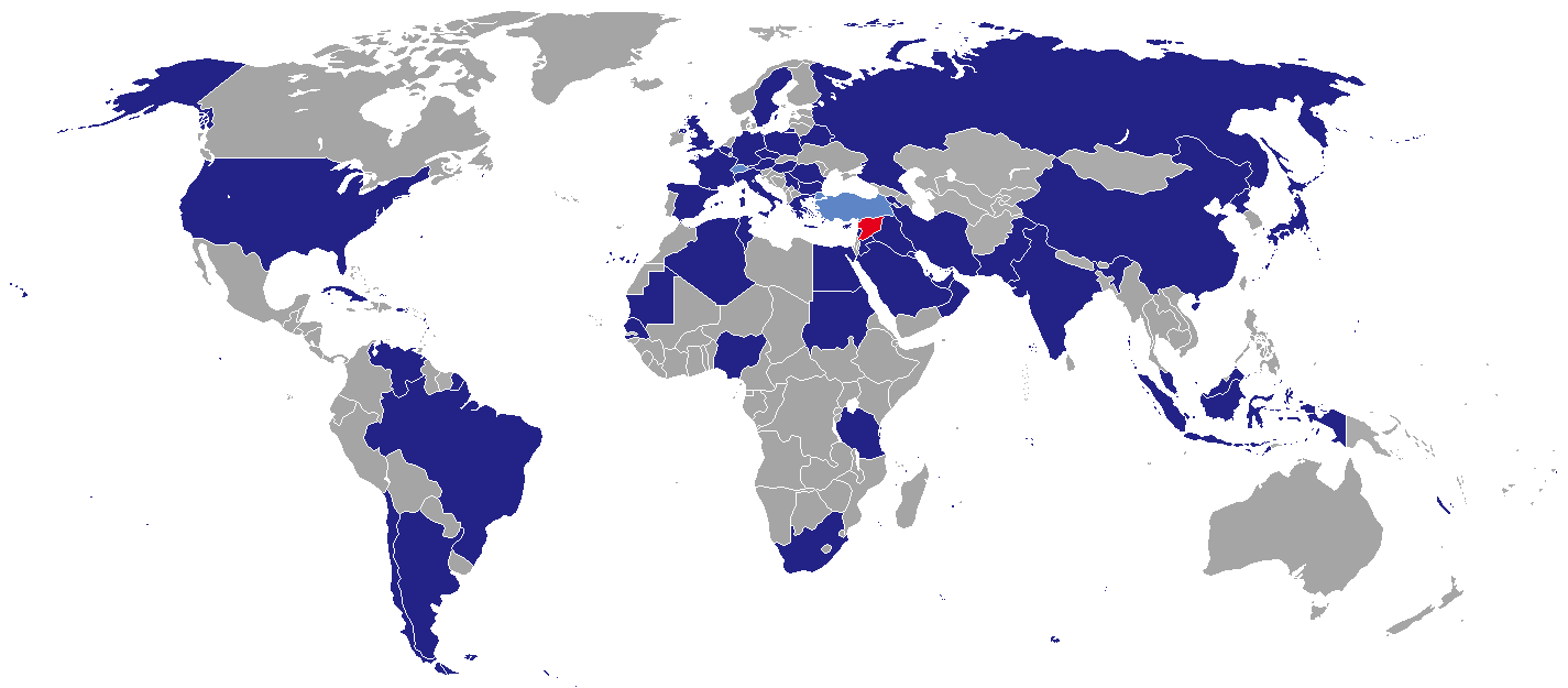 Map of diplomatic missions of Syria